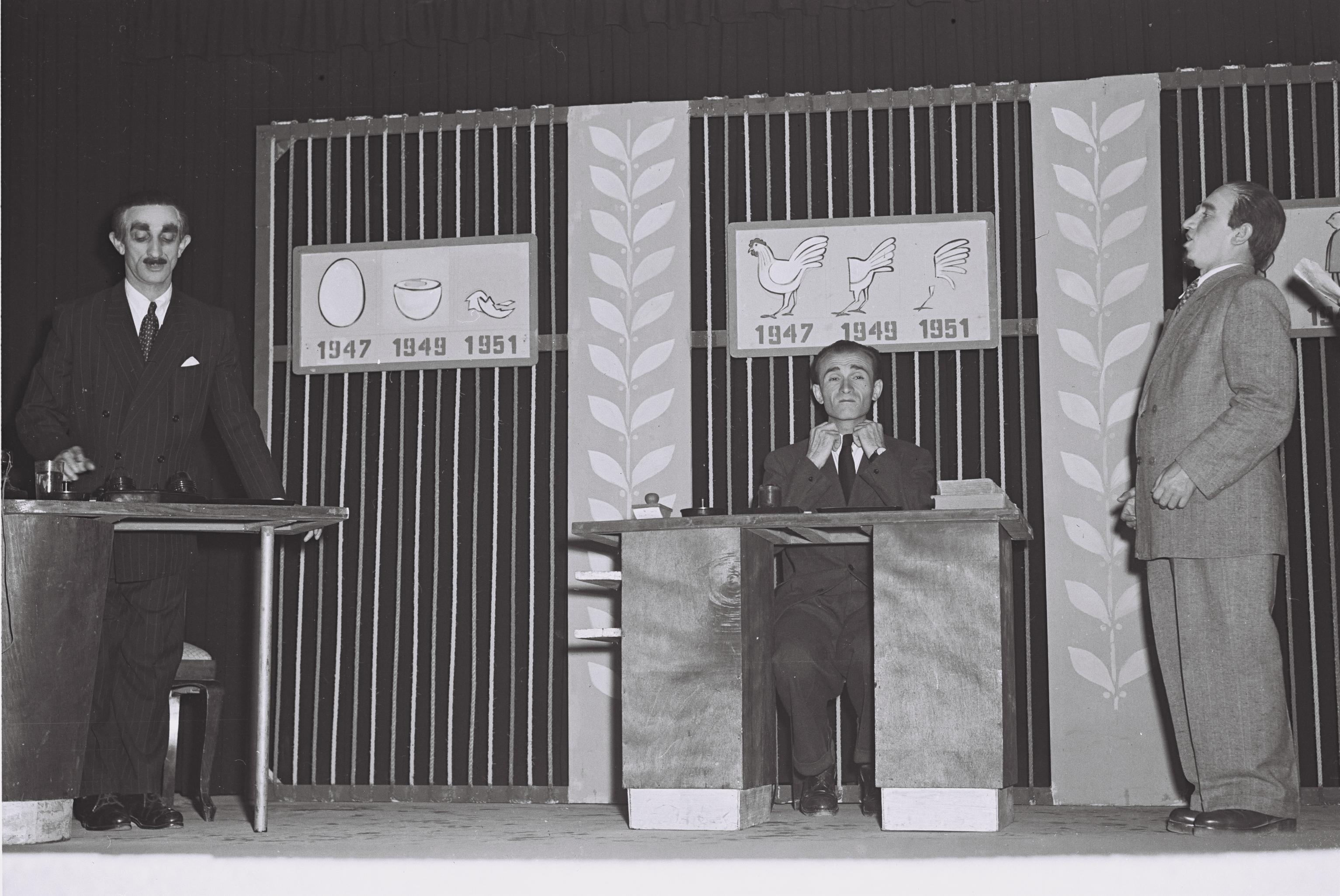 THE POPULAR SATIRICAL REVUE - LI LA LO - PRESENTS A SKETCH ON FOOD CONTROL.